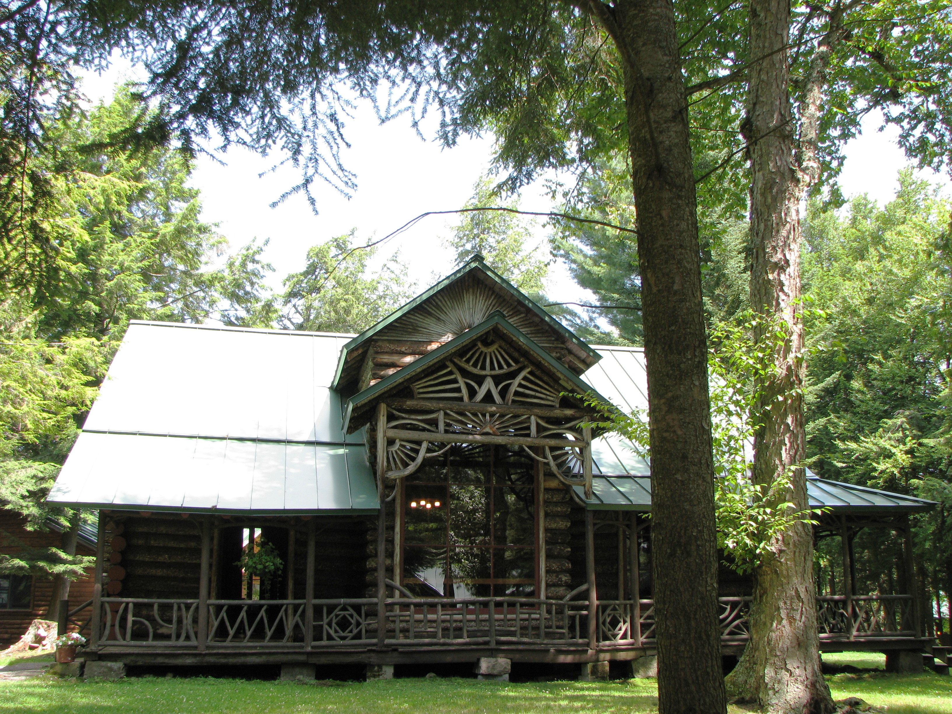 Camp Pine Knot, Metcalf Hall, Raquette Lake, New York